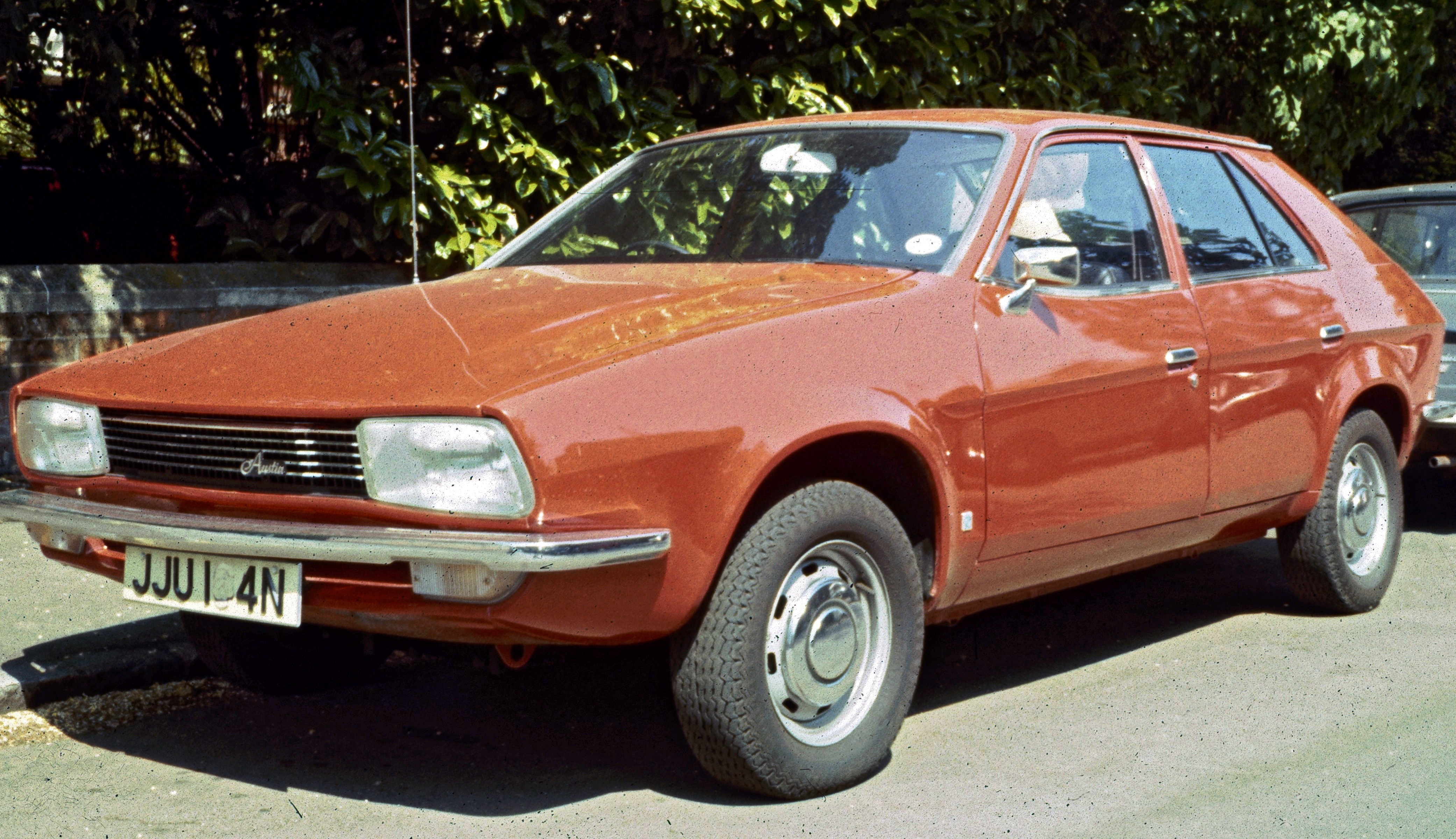 1975 Austin 1800 (ADO71) Later similarly (though not identically) bodied models were branded as the "Princess". But when originally launched the car was simply branded as the "Austin 1800" (or, if Morris badged, the "Morris 1800"). Larger engined six cylinder versions were branded as the "Austin 2200", "Morris 2200" or "Wolseley Saloon". The first two names were inherited from the "landcrab" BMC ADO17 which these models replaced. British Leyland's recruitment of marketing talent from (primarily) Ford of Britian had not, in 1975, yet led to the proliferation of changing names that became a feature of an increasingly confused British Leyland in the second half of the 1970s.